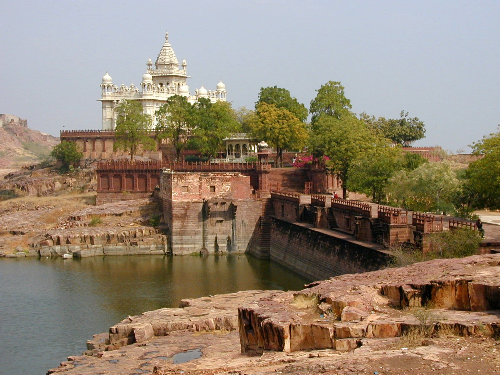 Jaswant Thada, Jodhpur.